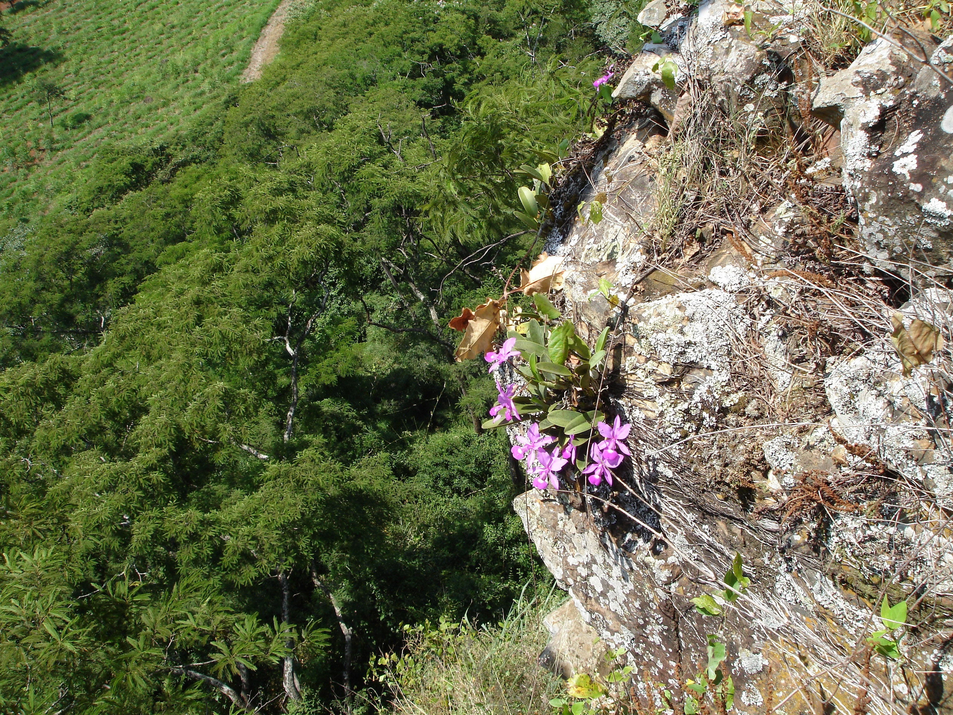 Cattleya walkeriana - growing litophytically in Sao Paulo, Brazil